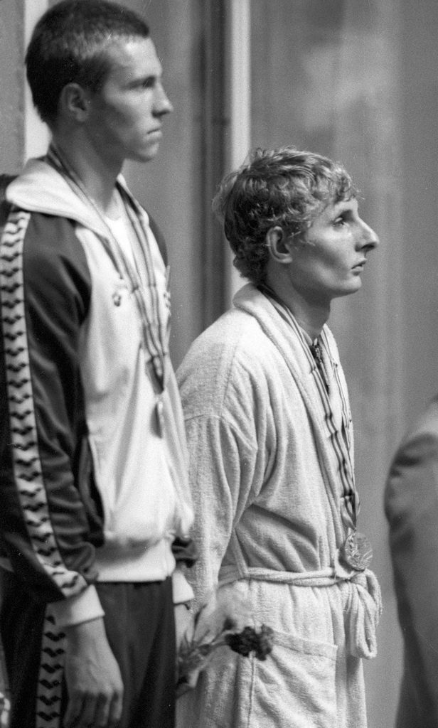 “Freestyle swimmers Vladimir Salnikov and Max Metzer”. Soviet swimmer Vladimir Salnikov, Olympic freestyle champion, left, and Australia's Max Metzker, who won bronze, after a 1,500 meter race at the 22nd Olympics in Moscow, 1980.